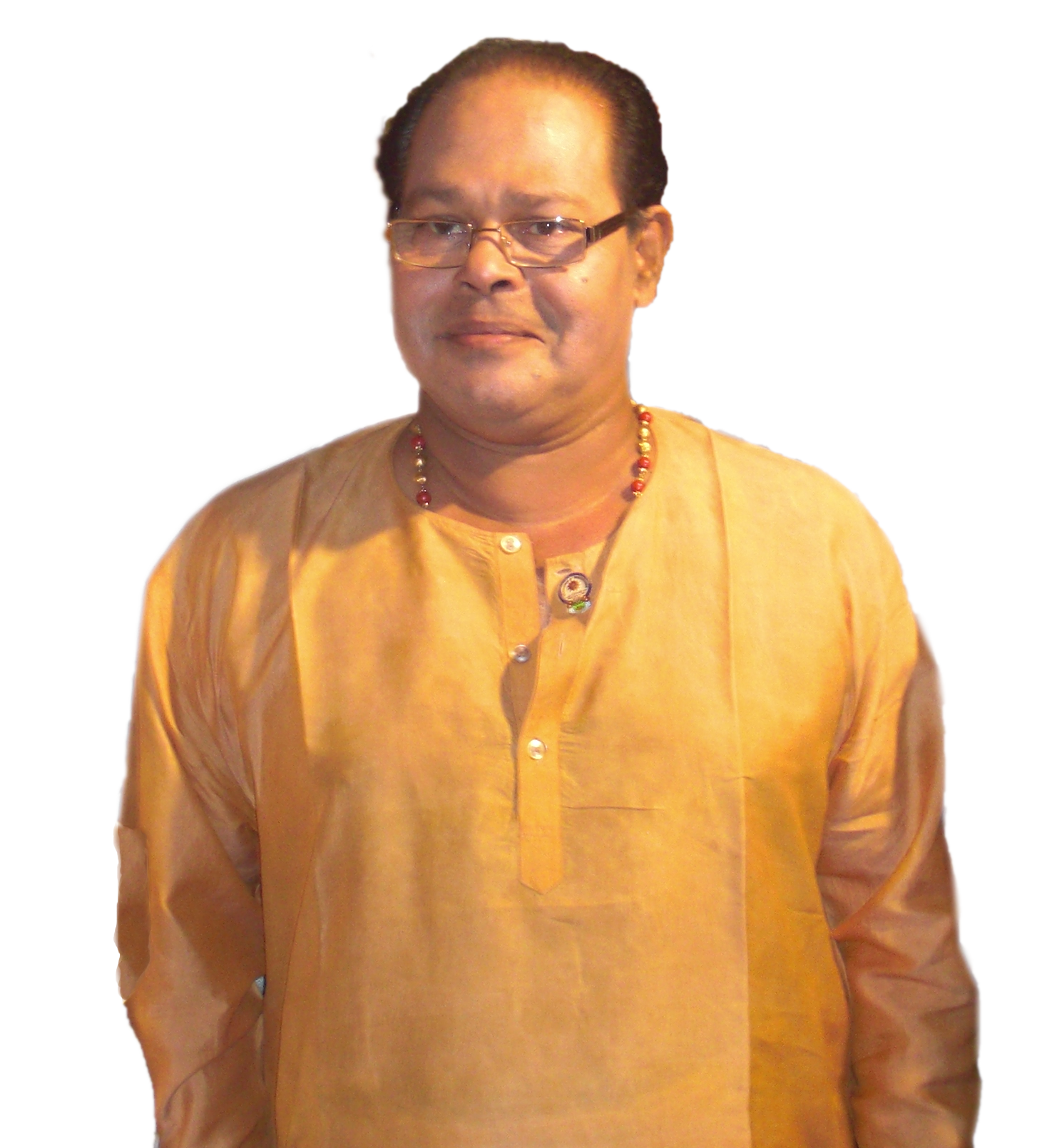 Malayalam Cine Actor Innocent (2011 December - at Thrissur, Kerala)